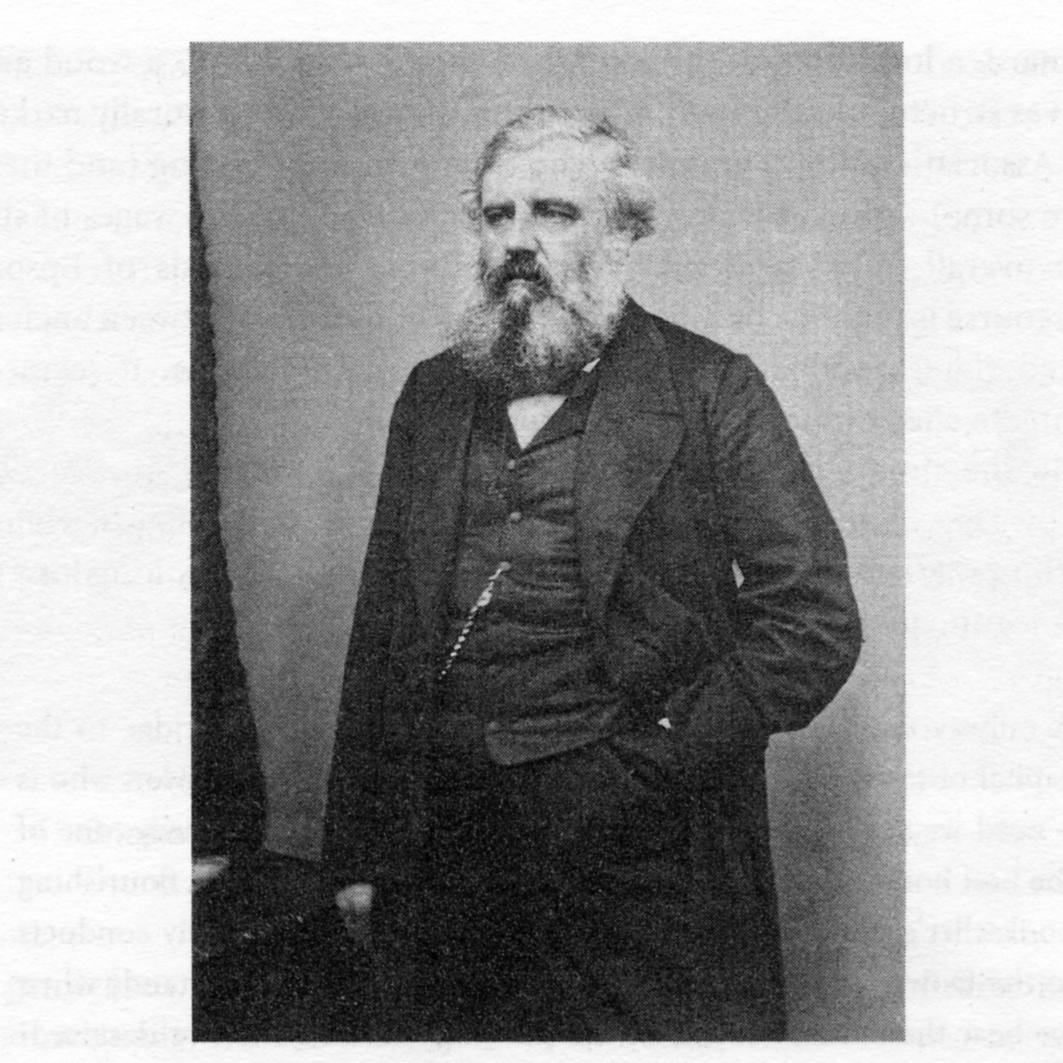 Henry Dorling, Clerk of the Course at Epsom, 1860s, step-father of Isabella Beeton